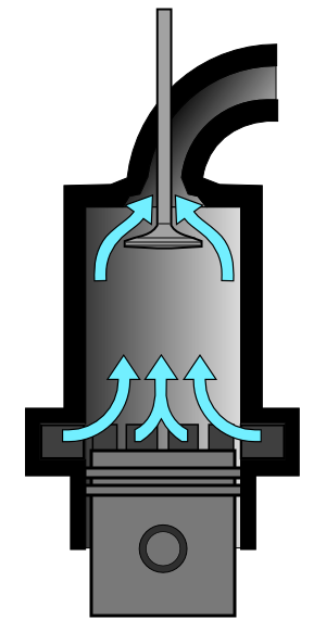 Diesel engine Uniflow, Two stroke diesel engine